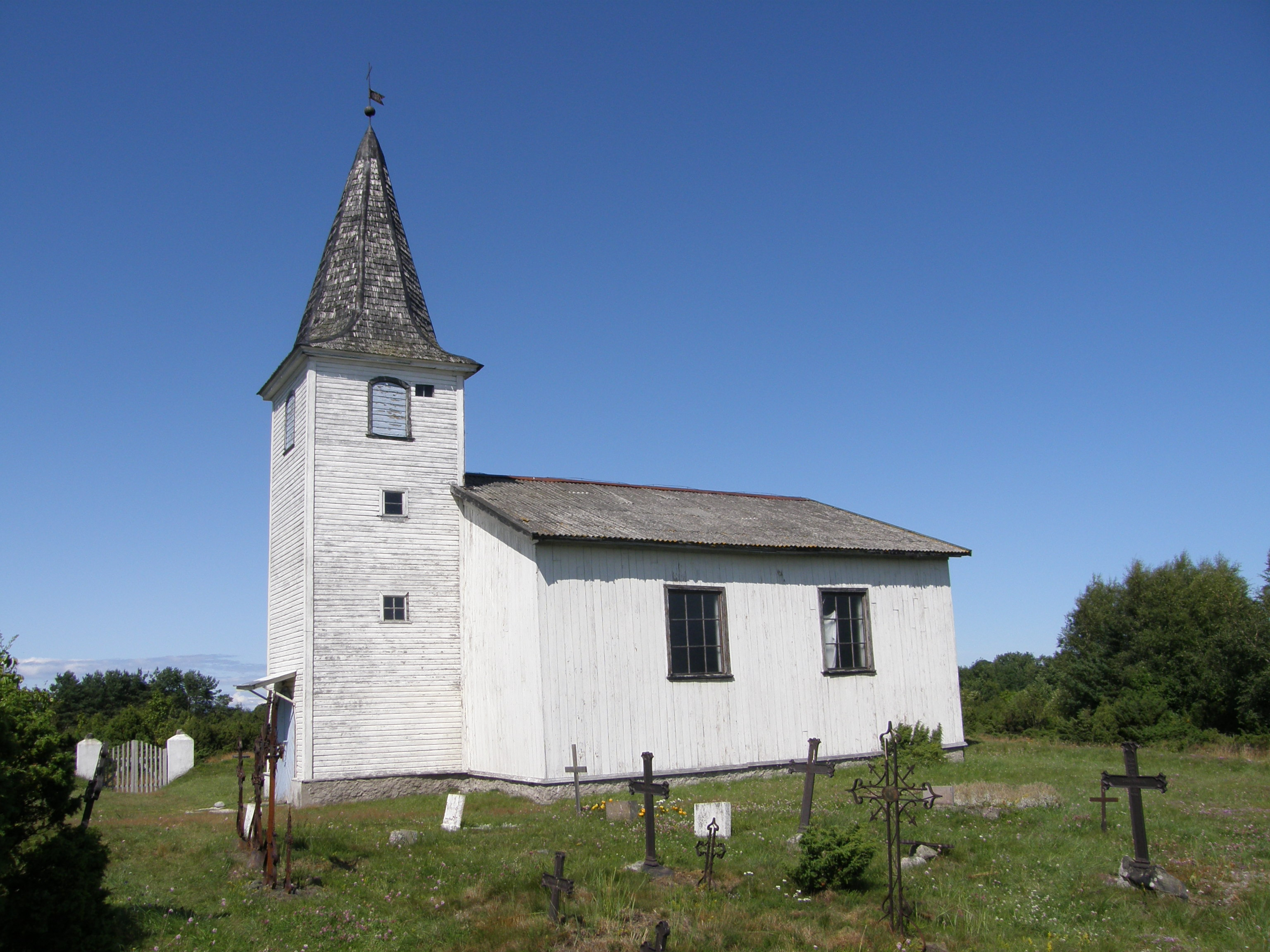 Prangli Church of Laurentius.